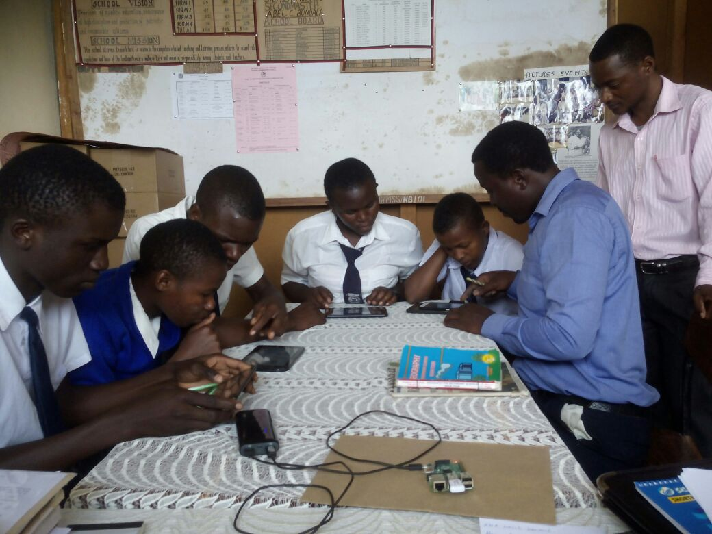 Using Pi in Masekelo